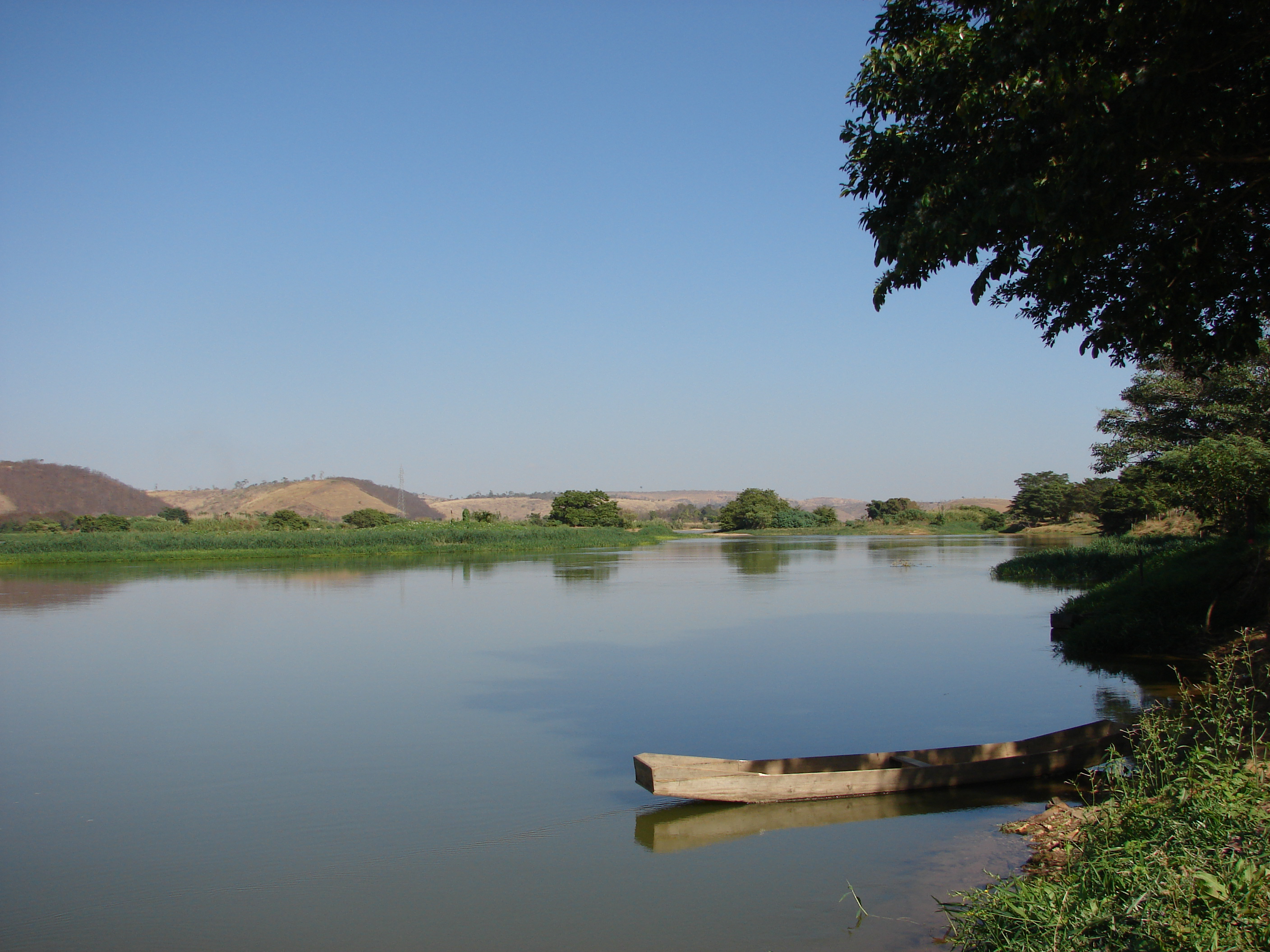 Rio Doce (Doce river) at Galiléia, Minas Gerais, Brazil